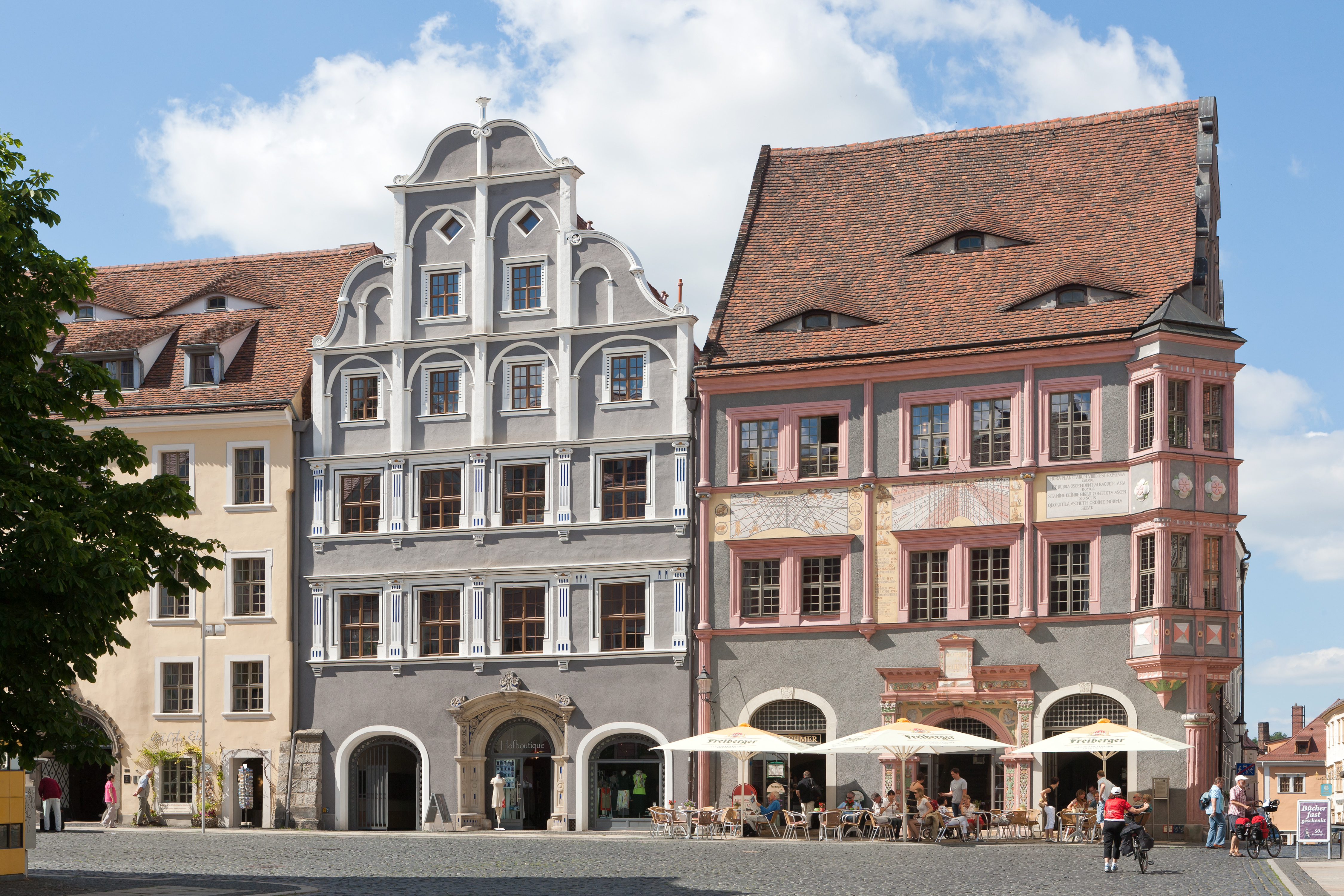 Görlitz: Untermarkt (Lower Market) 23 / 24 (from the right) as seen from the southeast